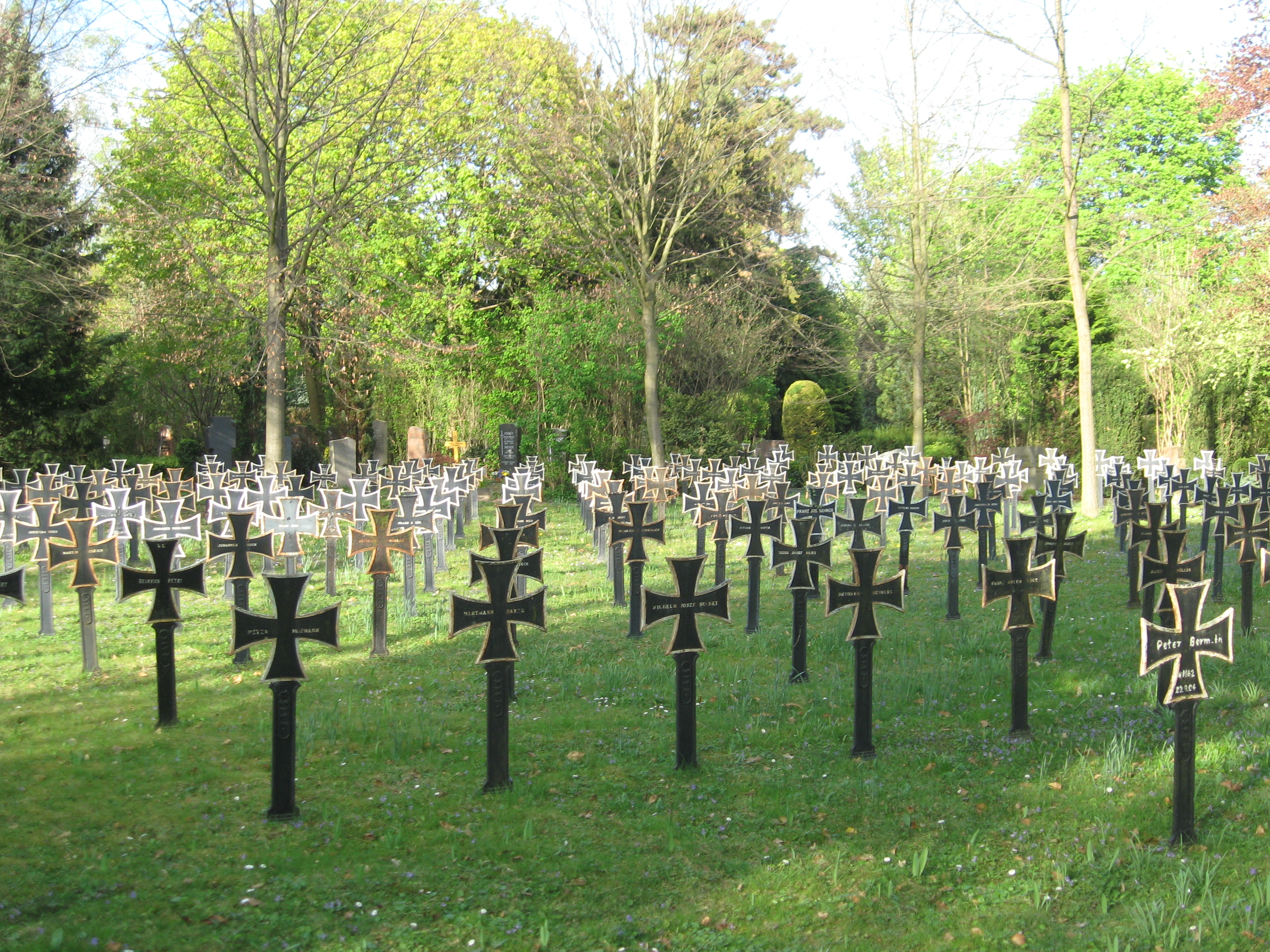 Hauptfriedhof Hochheimer Höhe, Worms, Germany